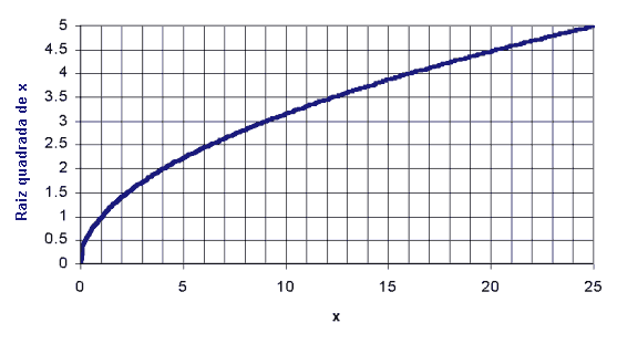 The graph of the function , made up of half a parabola with a vertical directrix, in Portuguese.